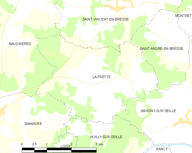 Map of French municipality